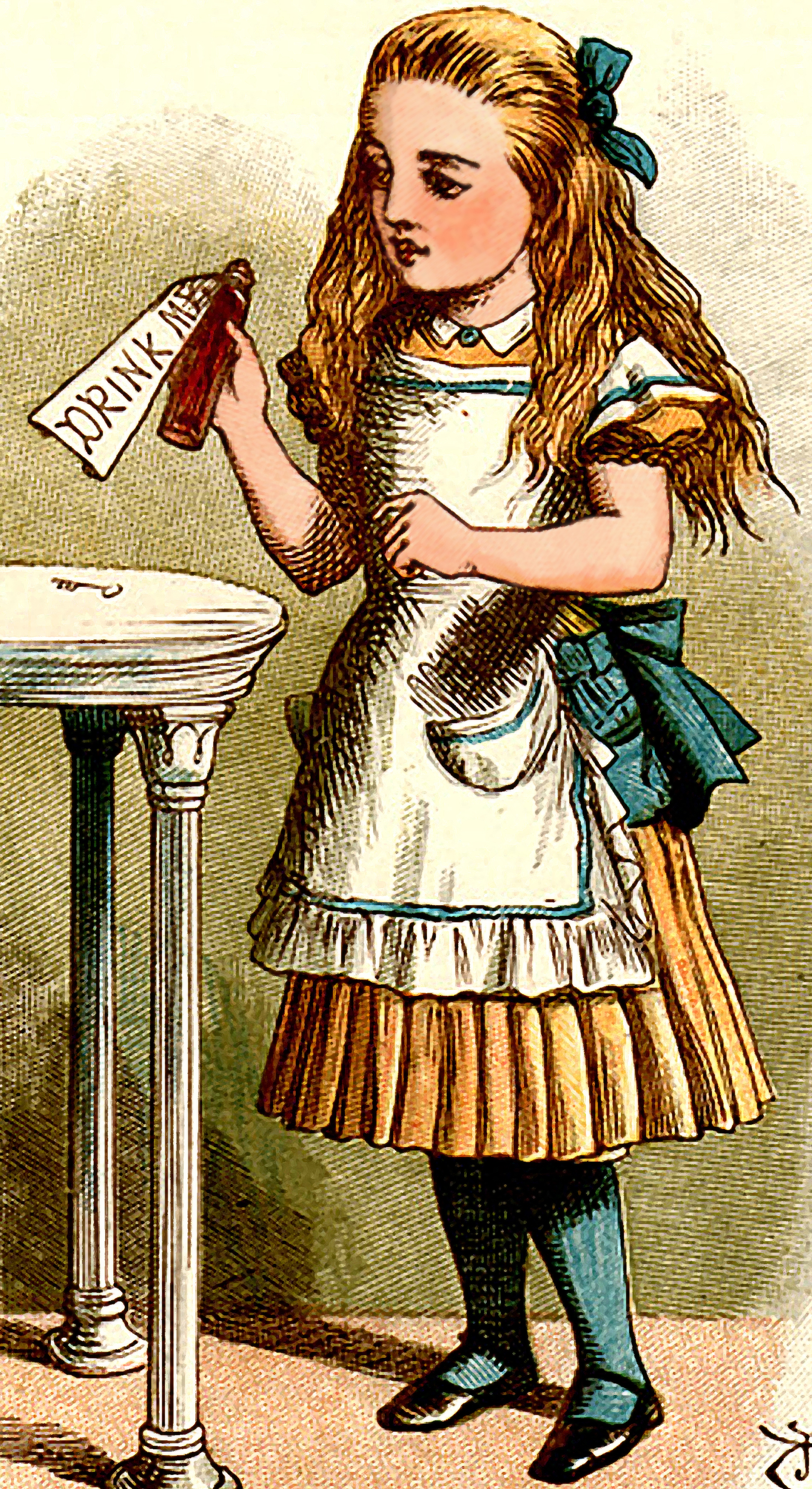 John Tenniel's illustration from The Nursery "Alice" (1889) (source), a shortened version of Alice's Adventures in Wonderland adapted by Lewis Carroll for young children. The illustration was originally published in black and white and was created for the first edition of Alice's Adventures in Wonderland (1865) (as seen here).